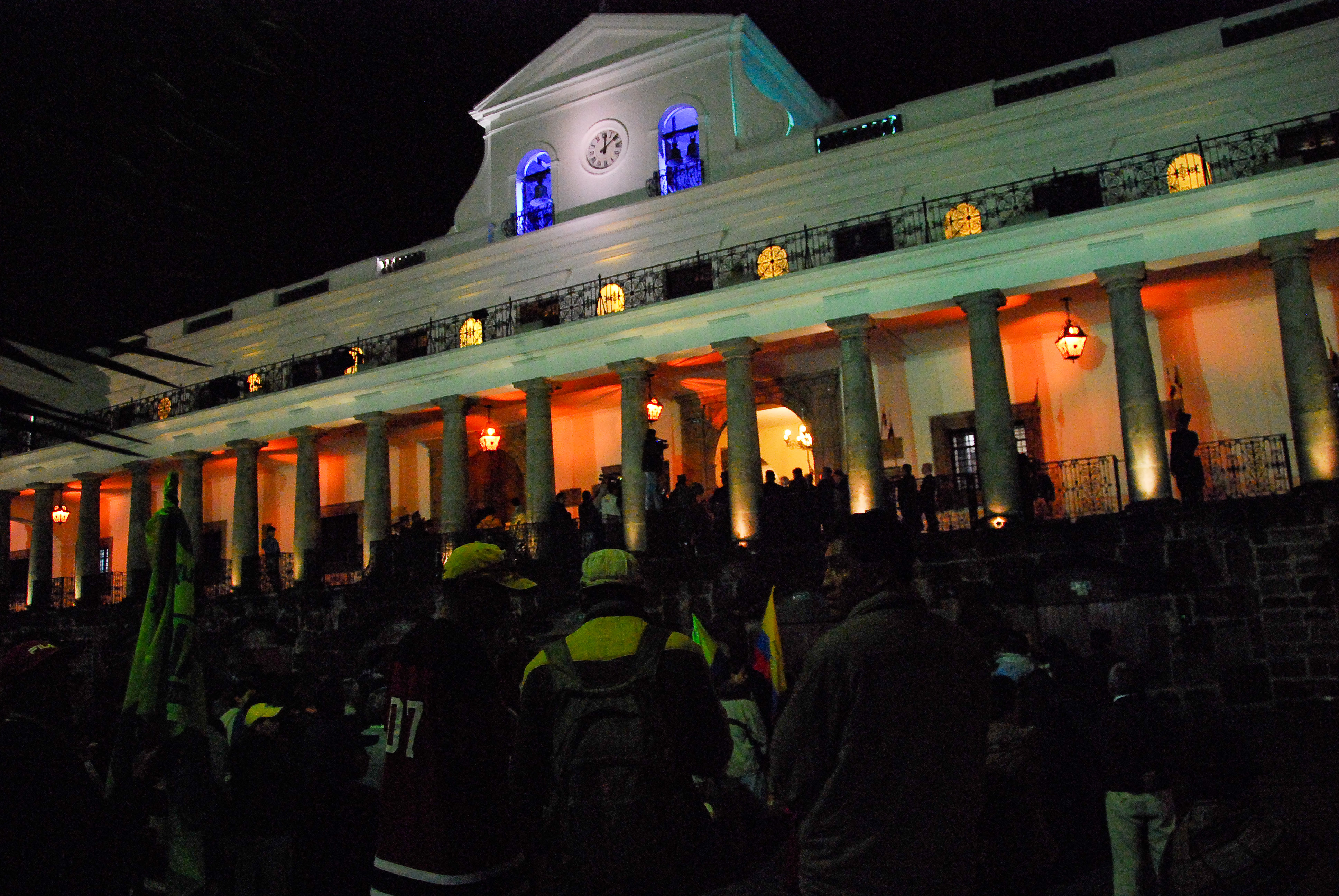 When I passed by the Plaza Grande, the Palace was being used for a diplomatic ceremony. Then President Correa came out and waved to the crowd!